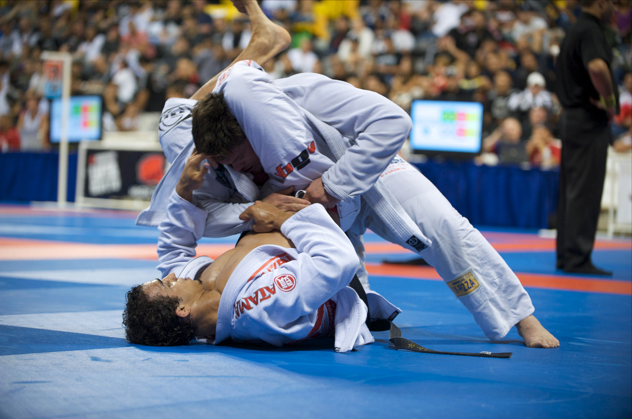 A match between Brazilian Jiu-Jitsu blackbelts Gabriel Vella and Romulo Barral at the 2009 World Jiu-Jitsu Championships,(attempting a triangle choke).